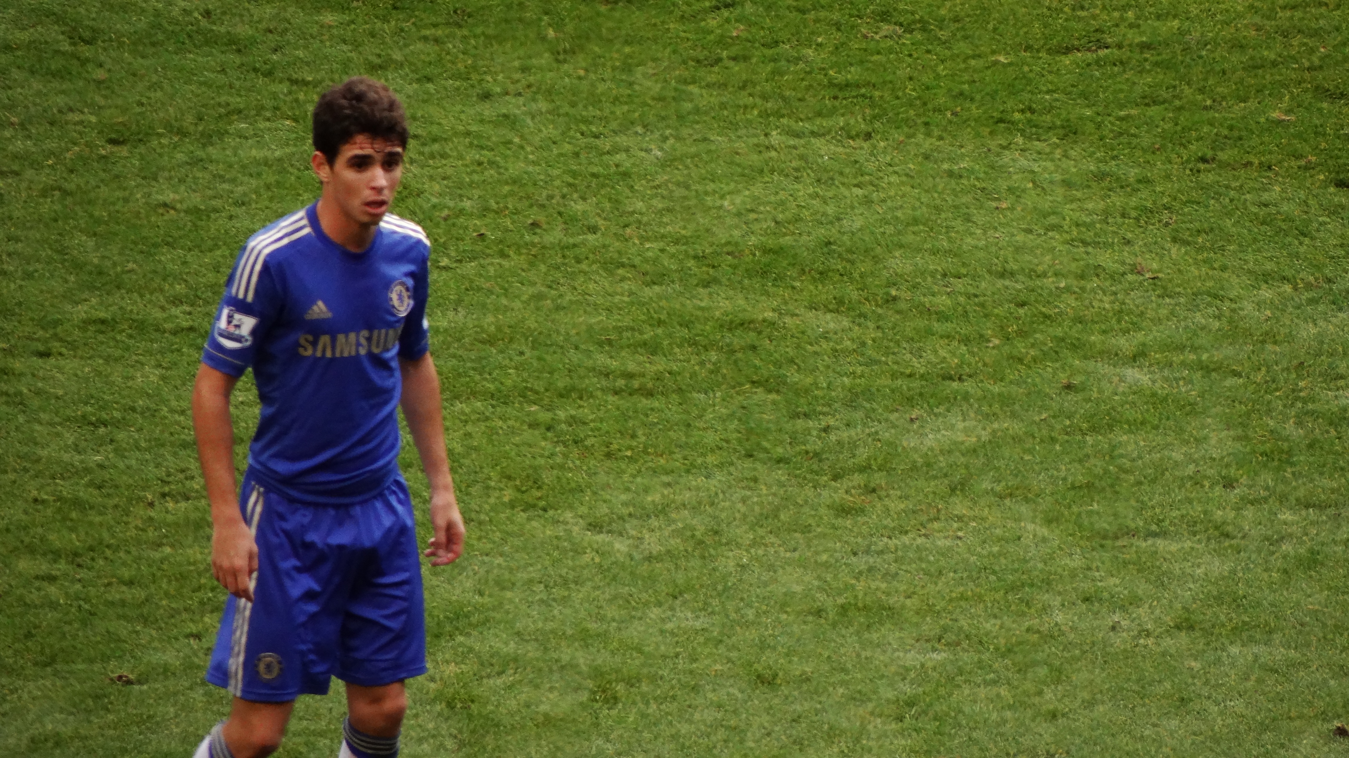 Oscar playing for Chelsea in 2012, against Norwich City.